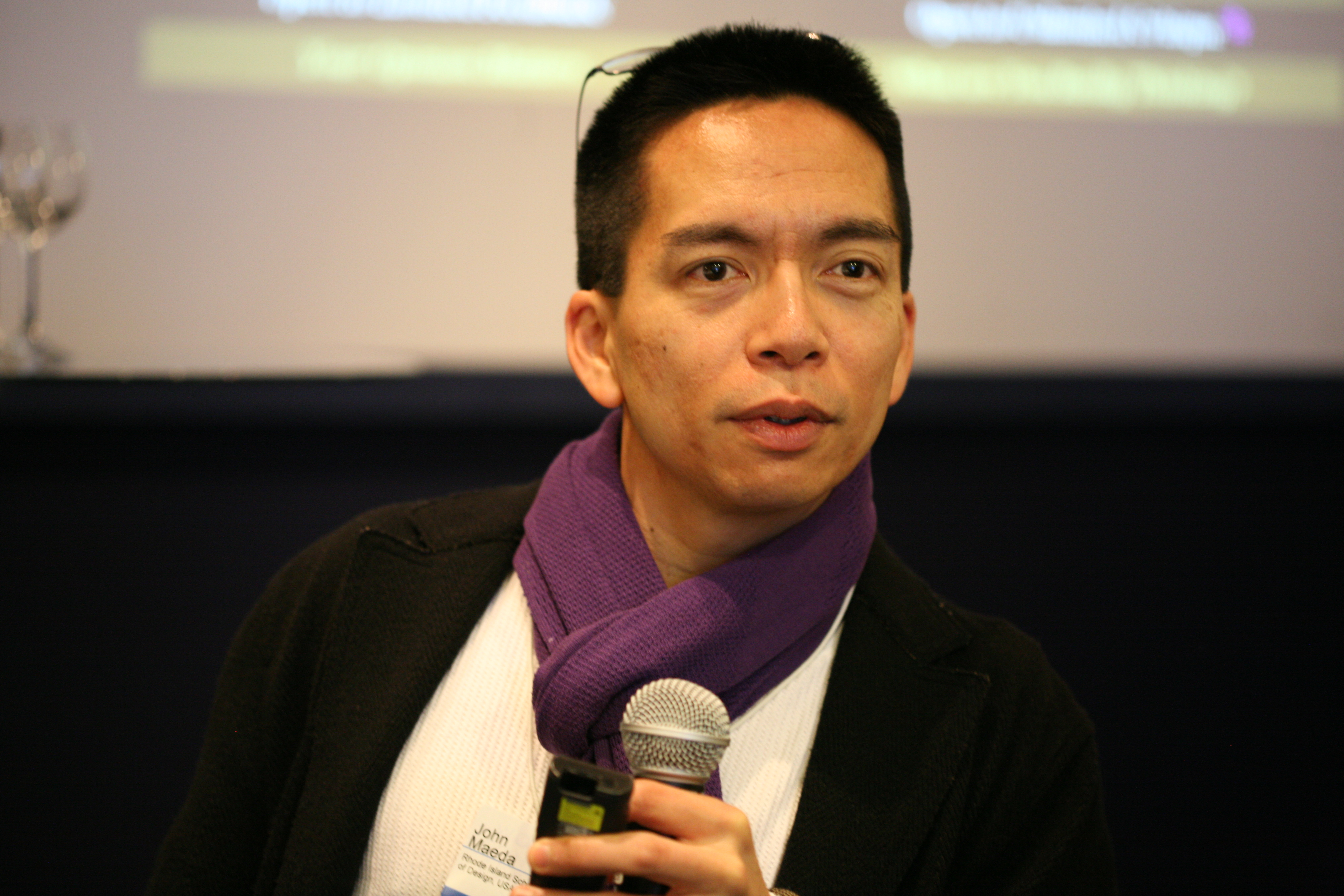 John Maeda, President of the Rhode Island School of Design. This photo was made at the World Economic Forum 2009 in Davos, Switzerland.